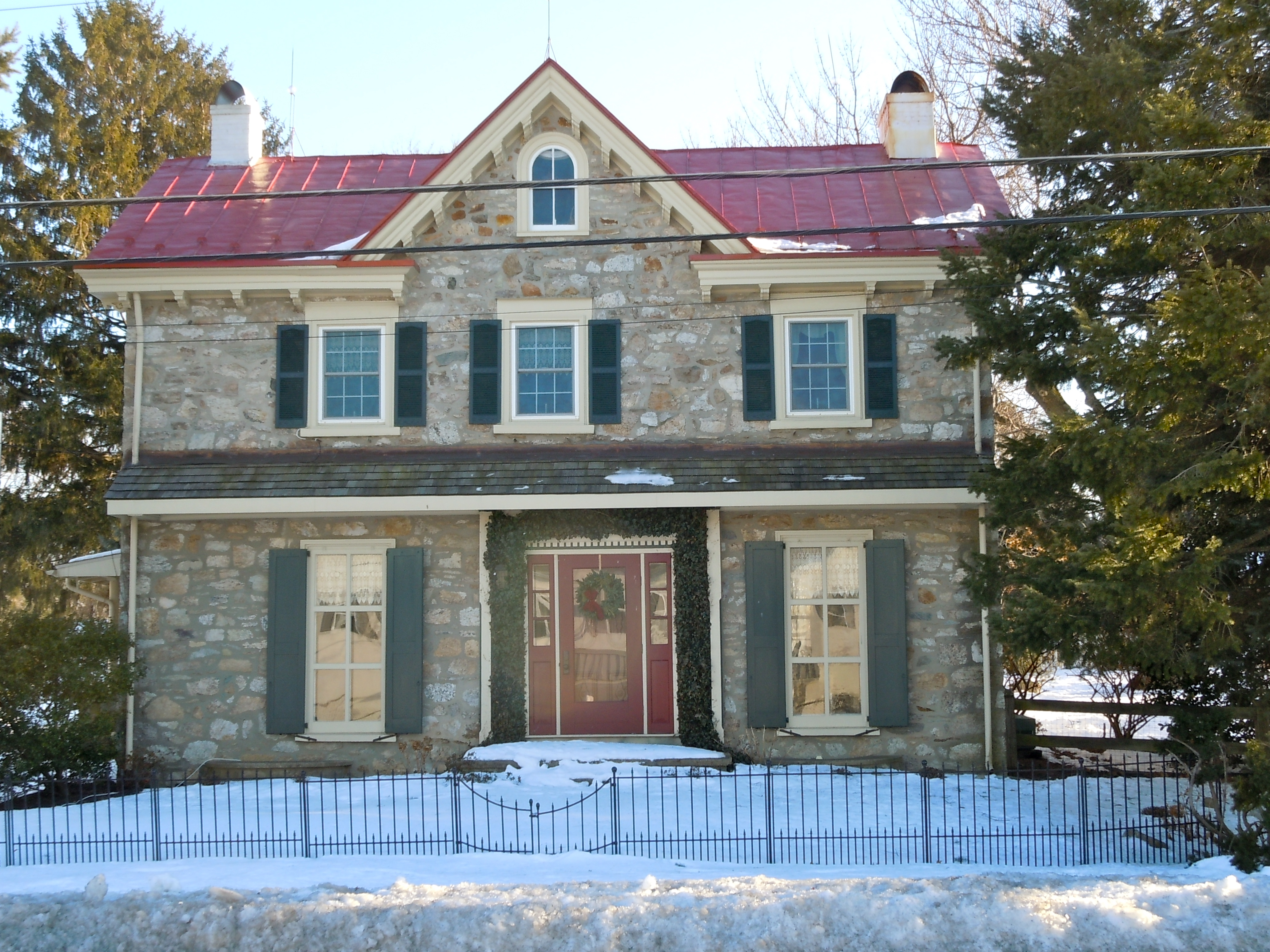 House in Lionville Historic District on the NRHP since December 1, 1980. The HD is roughly along Pennsylvania Route 100 and South Village Avenue in Lionville, Uwchlan Township, Chester County, Pennsylvania